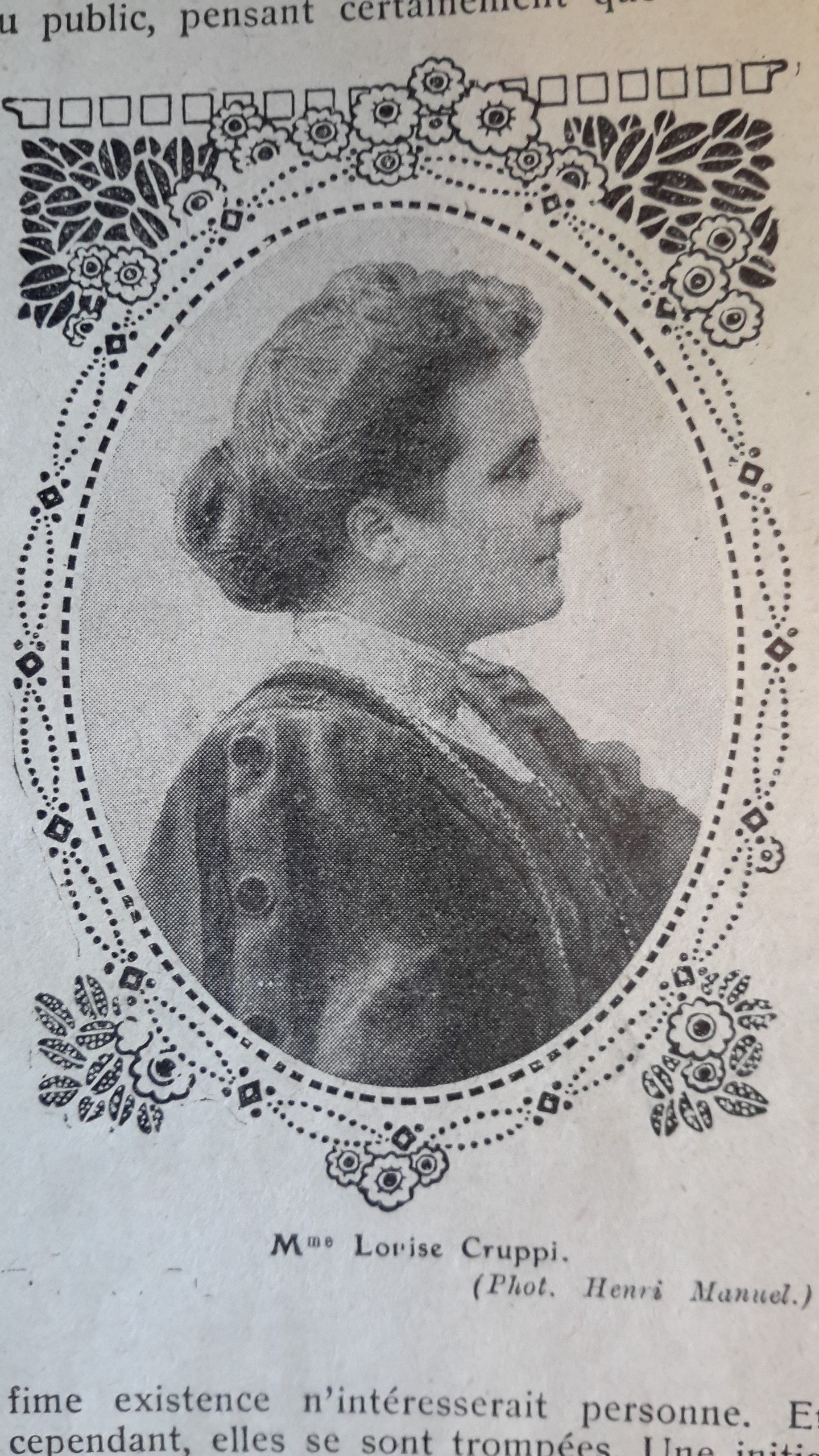 Louise Cruppi, in Journal de l'Université des Annales, 1913-1914, 15 mai 1914, p. 622.